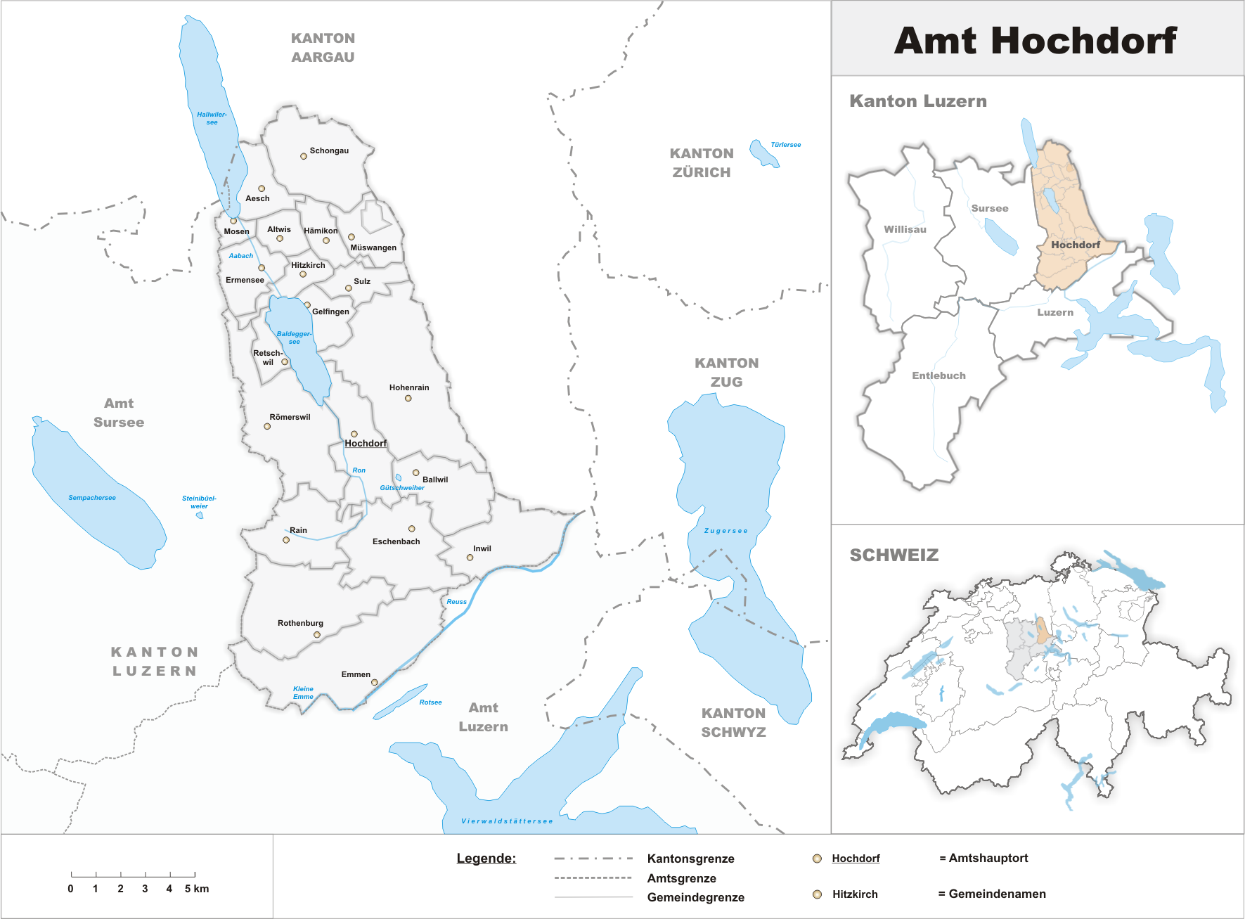 Municipalities in the district of Hochdorf